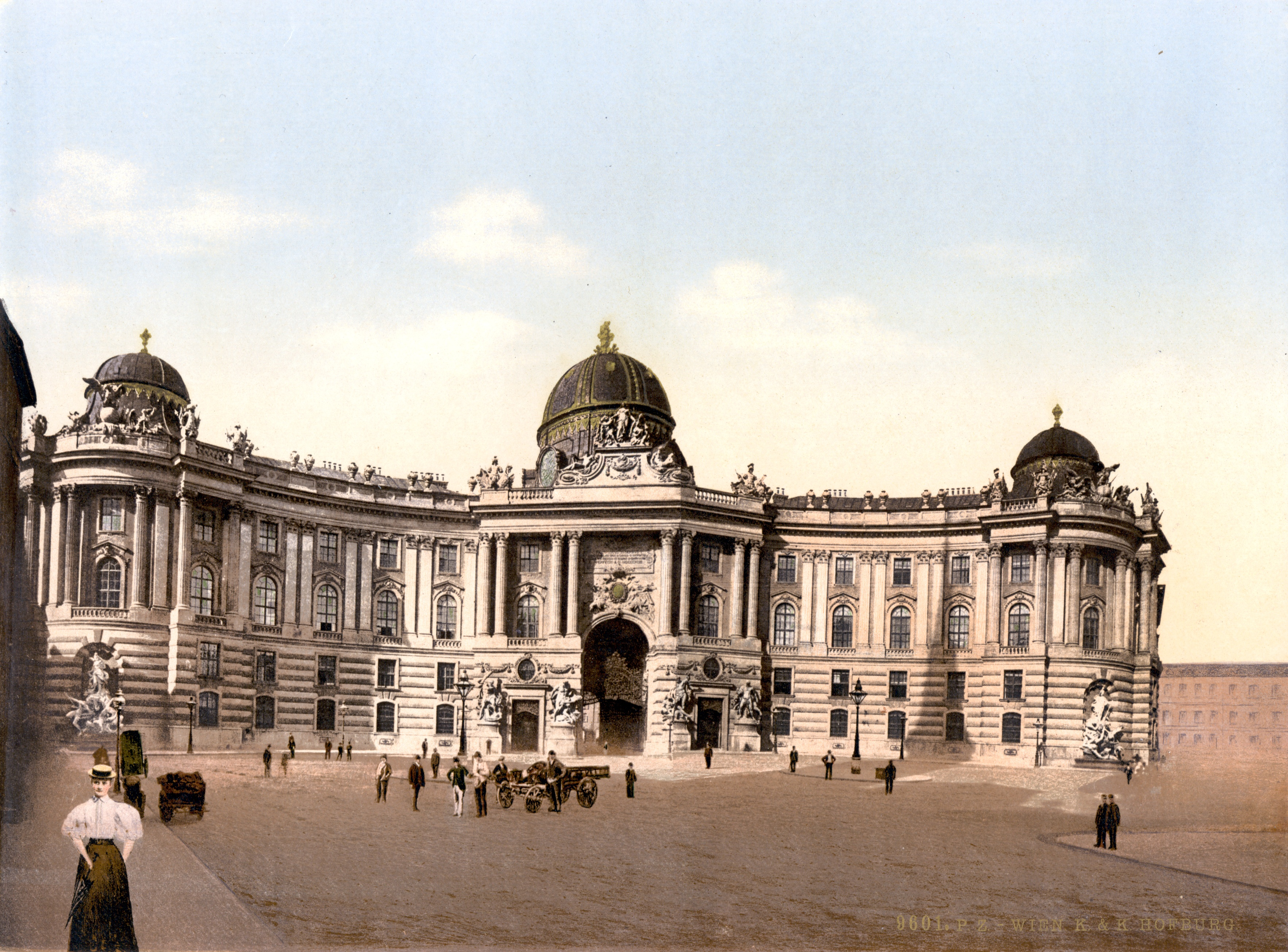 Historical panorama of the Michaelertrakt wing of the Imperial Hofburg Palace in Vienna (between 1890 and 1900).